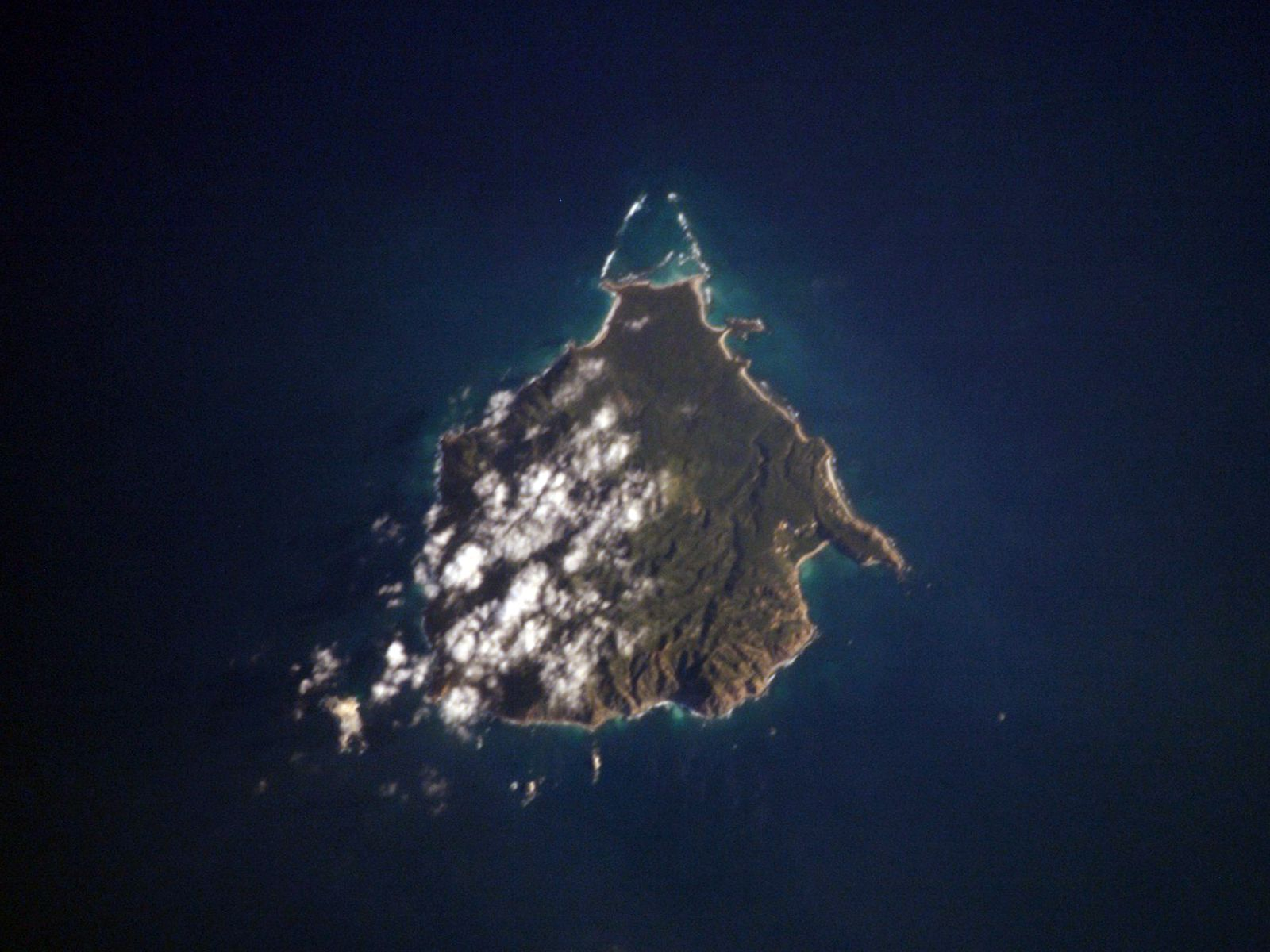 NASA astronaut image of María Cleofas Island, Islas Marías, Mexico)